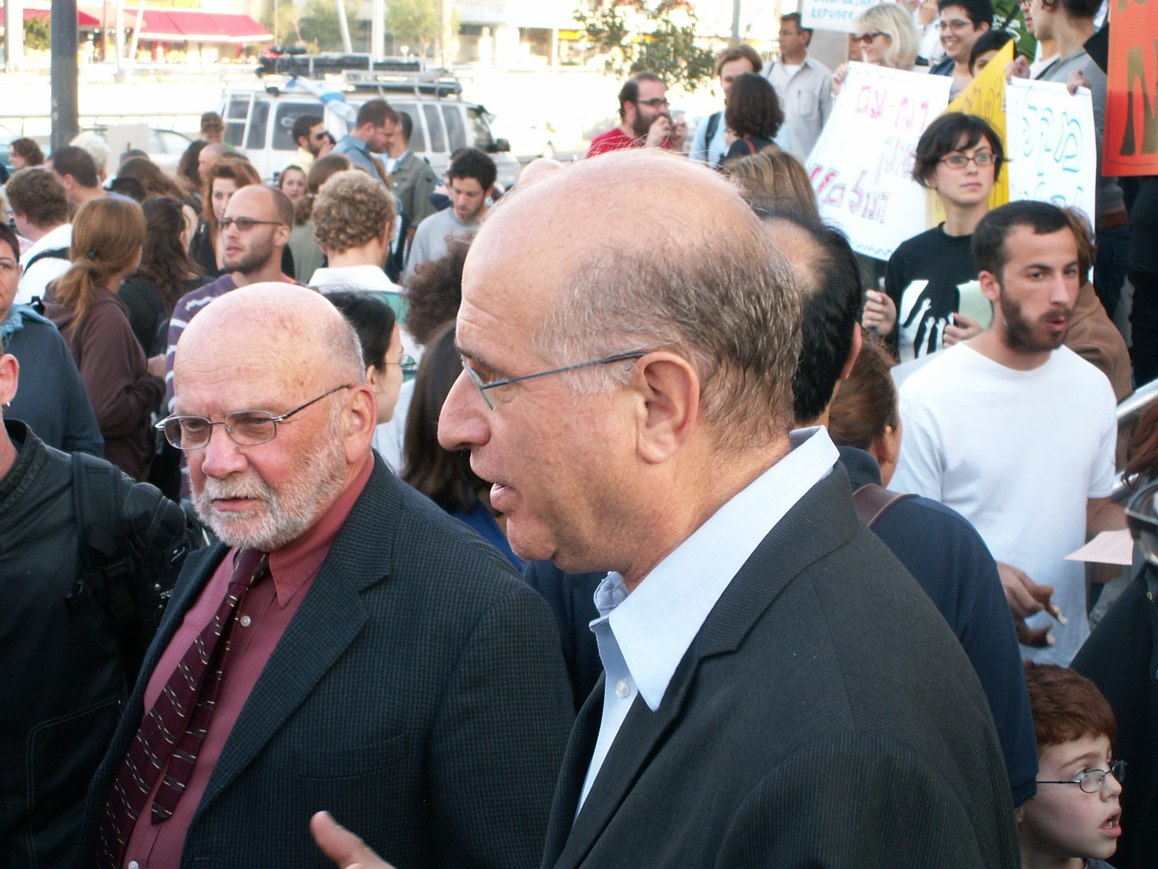 Prof. Avishai Braverman. Member of Knesset for the Israeli Labor party, and former Dean of Ben-Gurion University